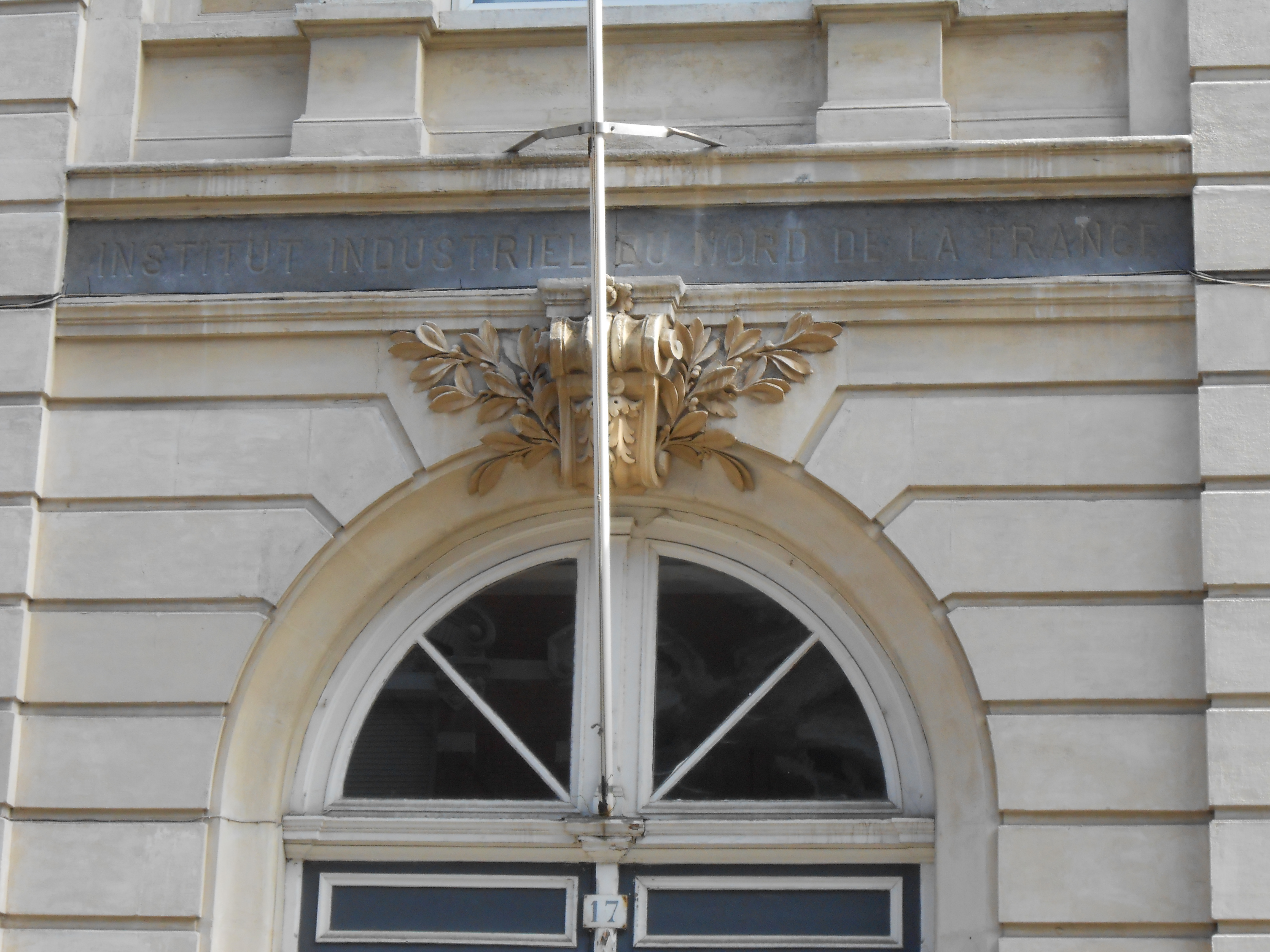 Institut industriel du Nord de la France - IDN (1875-1968) 17, rue Jeanne d'Arc, Lille, France